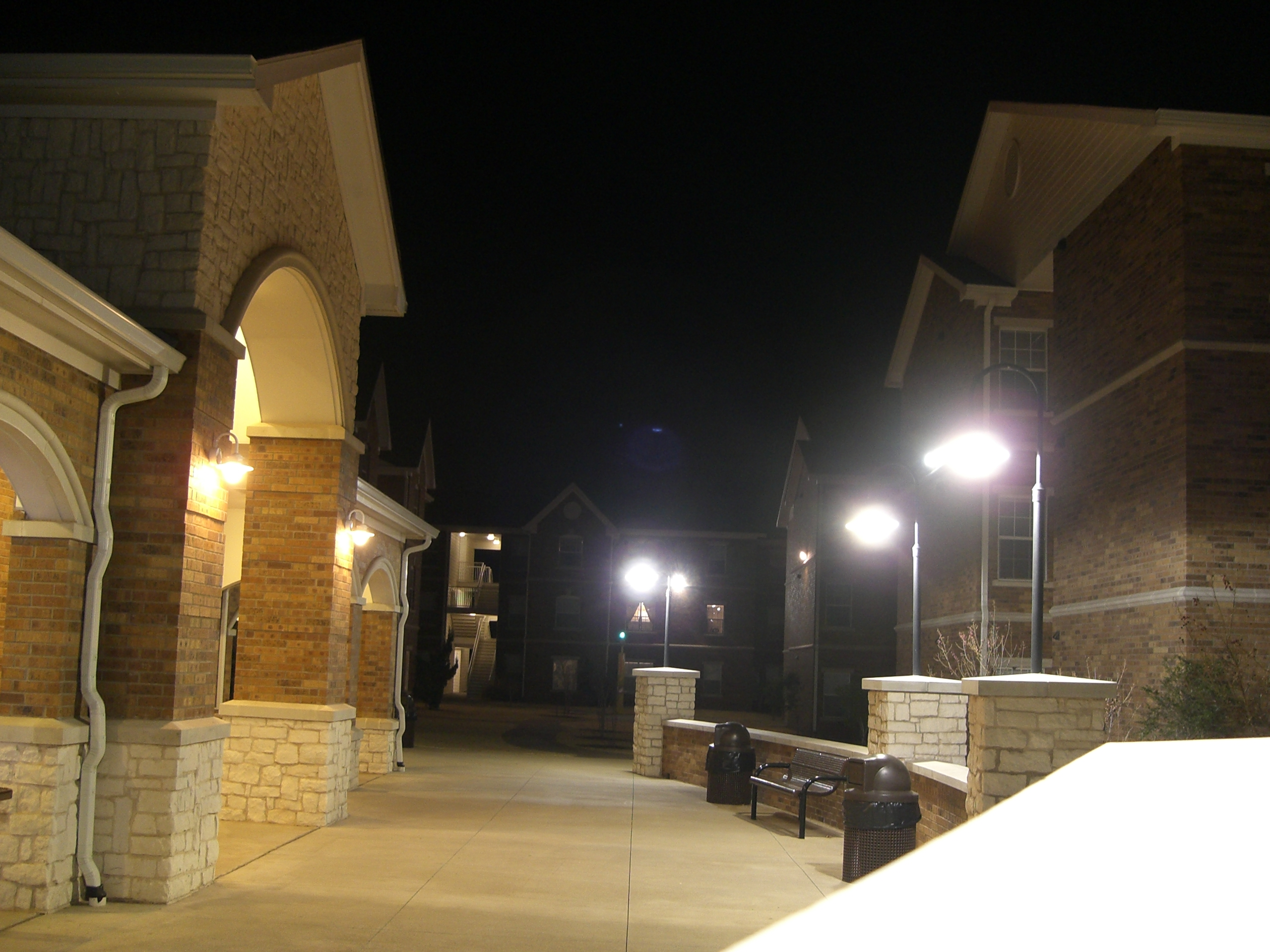 Place behind the clubhouse of the Sunwatcher-Village apartment complex at Midwestern State University.